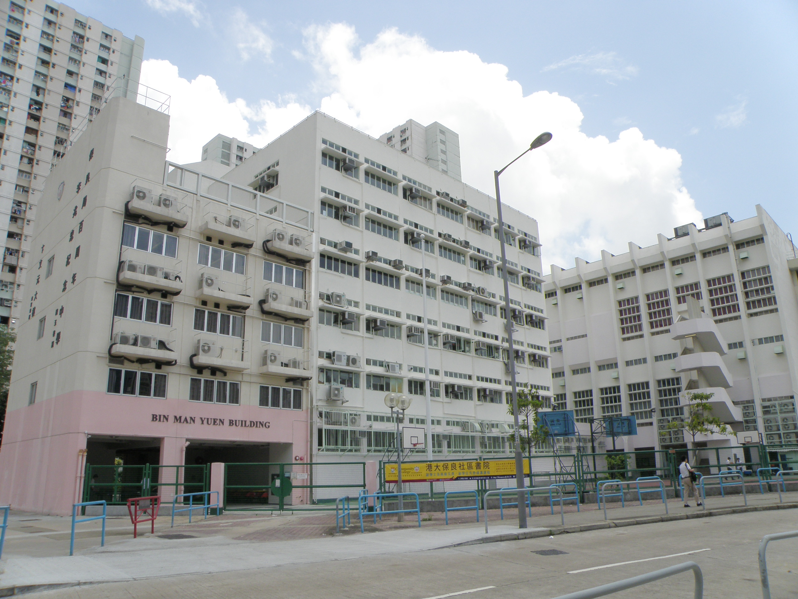 Po Leung Kuk Centenary Li Shiu Chung Memorial College in Tuen Mun, Hong Kong.